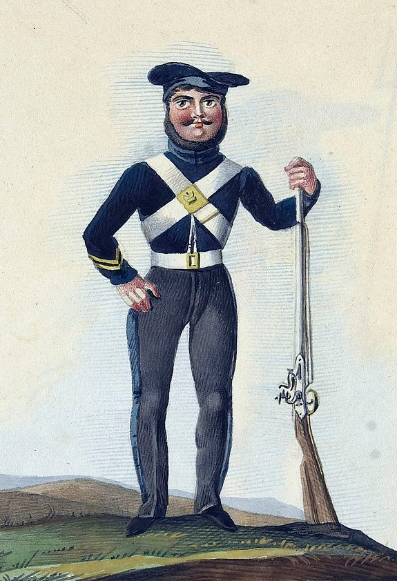 A soldier of the Provisonal Battalions and a National Guard, pictured in Picturesque Review of the Costume of the Portuguese, c. 1836